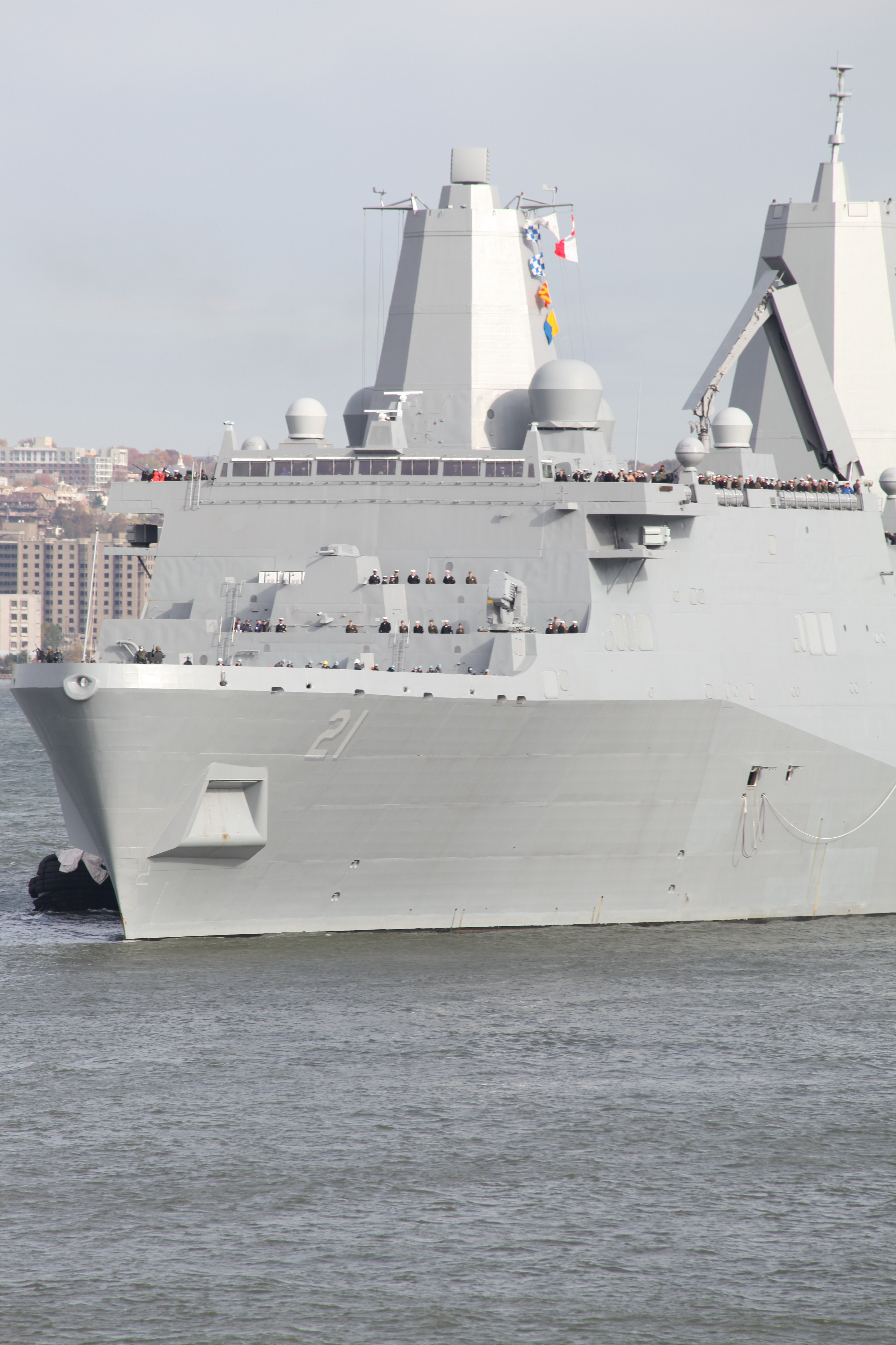 Marines assigned to Special Purpose Marine Air-Ground Task Force 26 and sailors assigned to the amphibious transport dock ship Pre-Commissioning Unit (PCU) New York (LPD 21) man the rails.